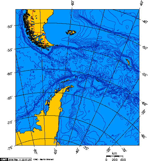 Drake Passage - Lambert Azimuthal projection